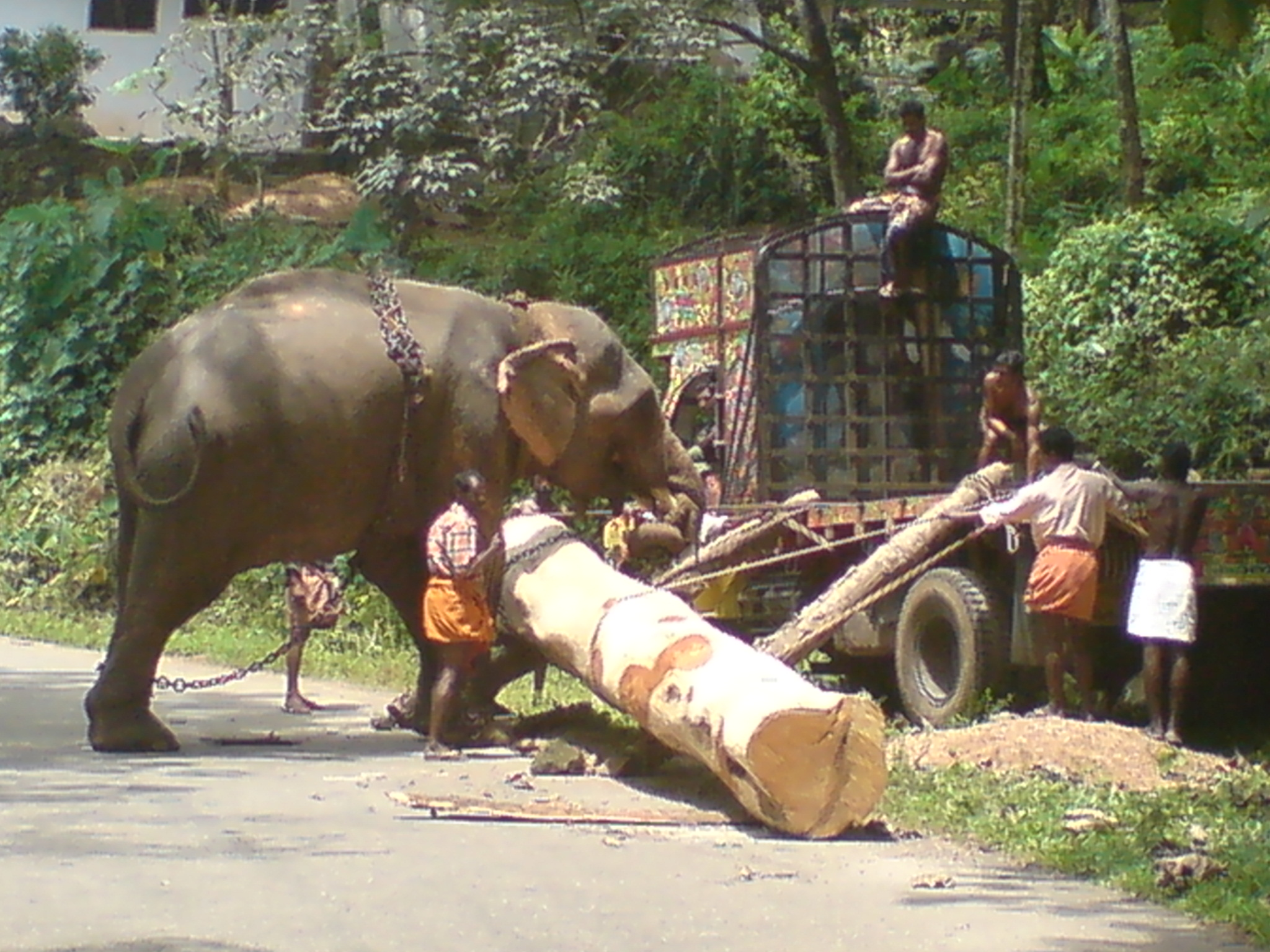 An Indian Elephant (Elephas maximus indicus) being used to load timber in Chittar, Kerala, India